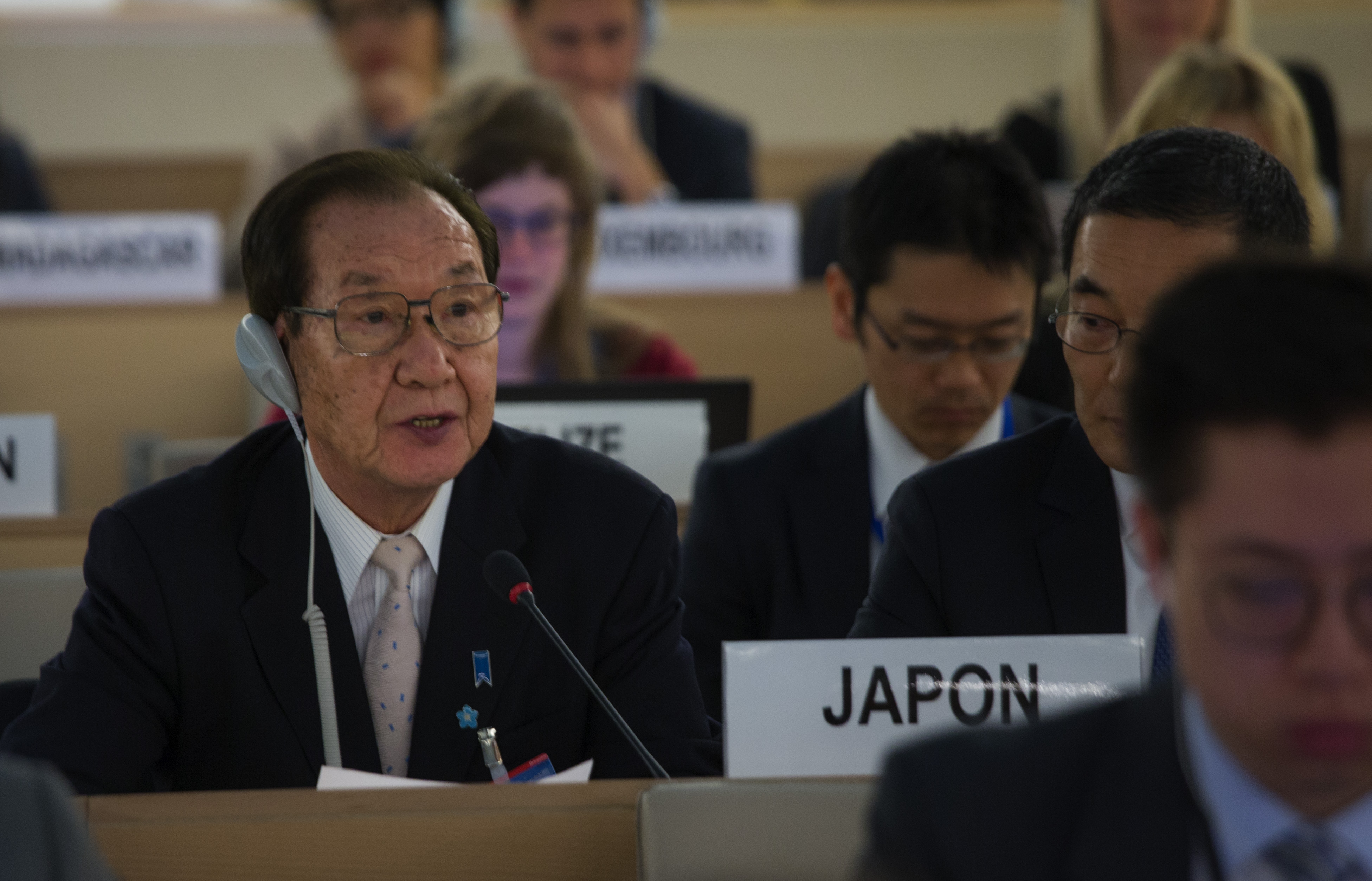 Shigeo Iizuka, Chairman of the Association of Families of Victims Kidnapped by North Korea gives his testimony at the United Nations. The United Nations Commission of Inquiry on North Korea formally presented its report to the Human Rights Council March 17, 2014.